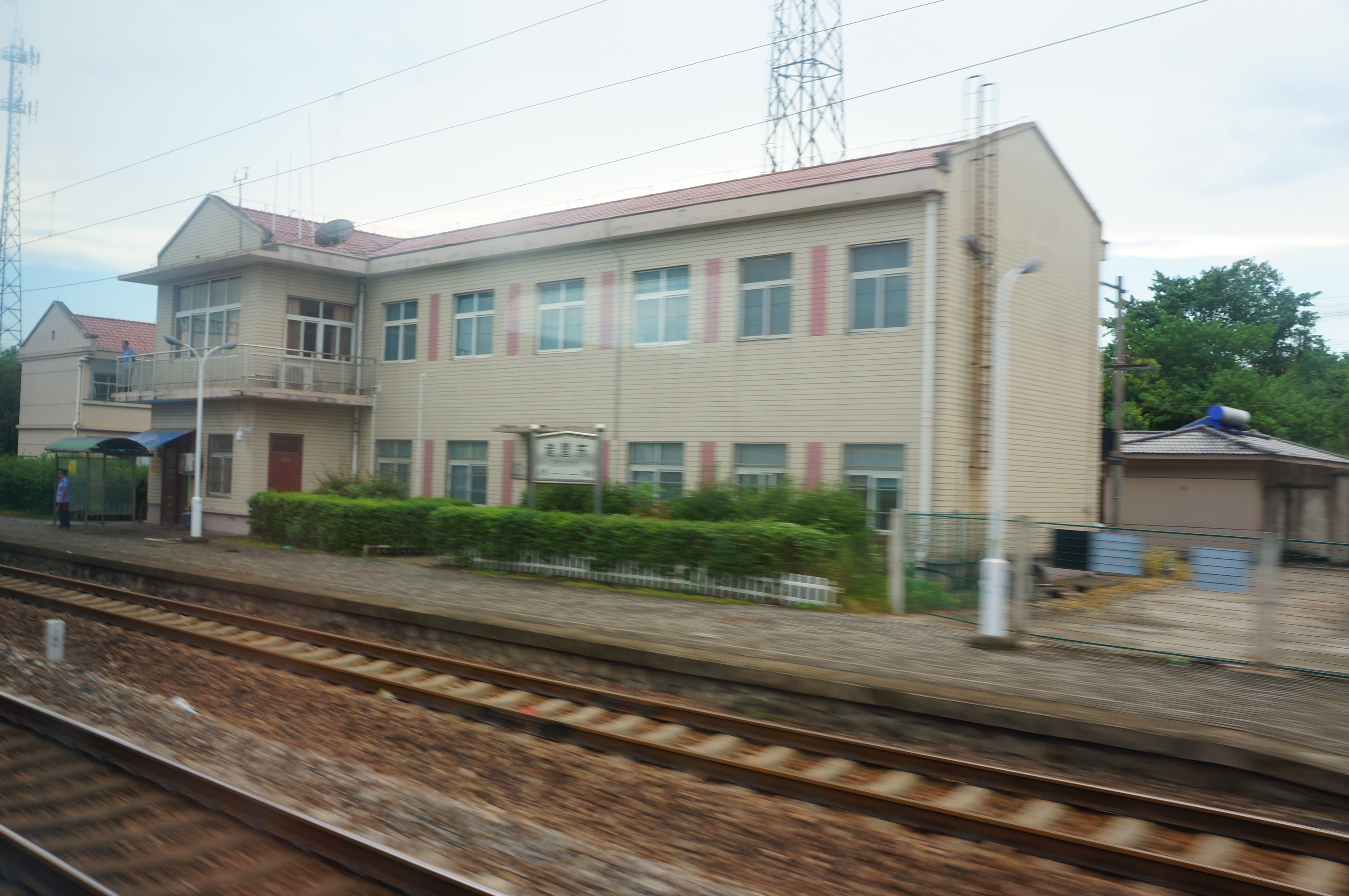 201608 T7785 passes Zhujidong Station